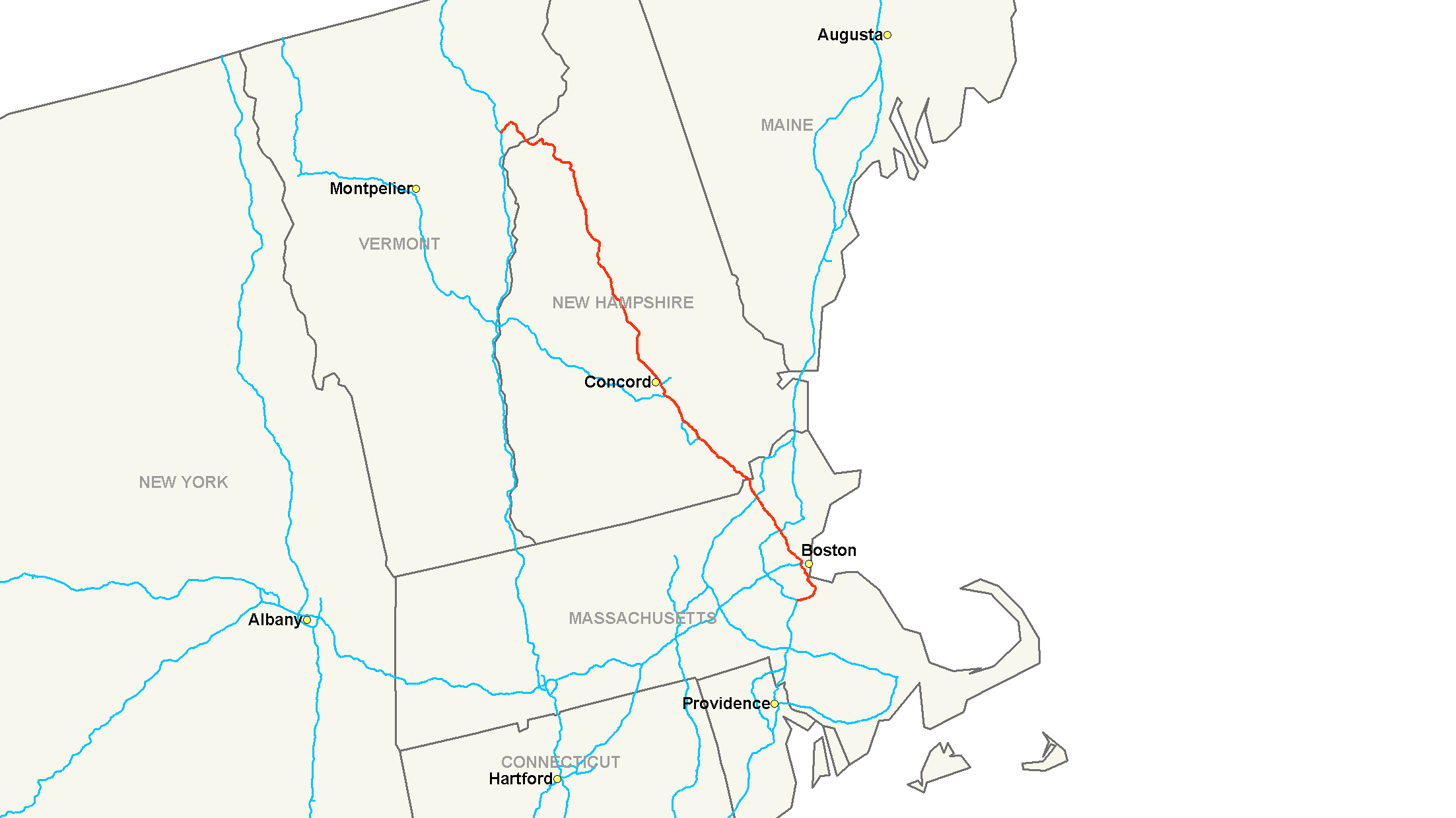 Map of Interstate 93